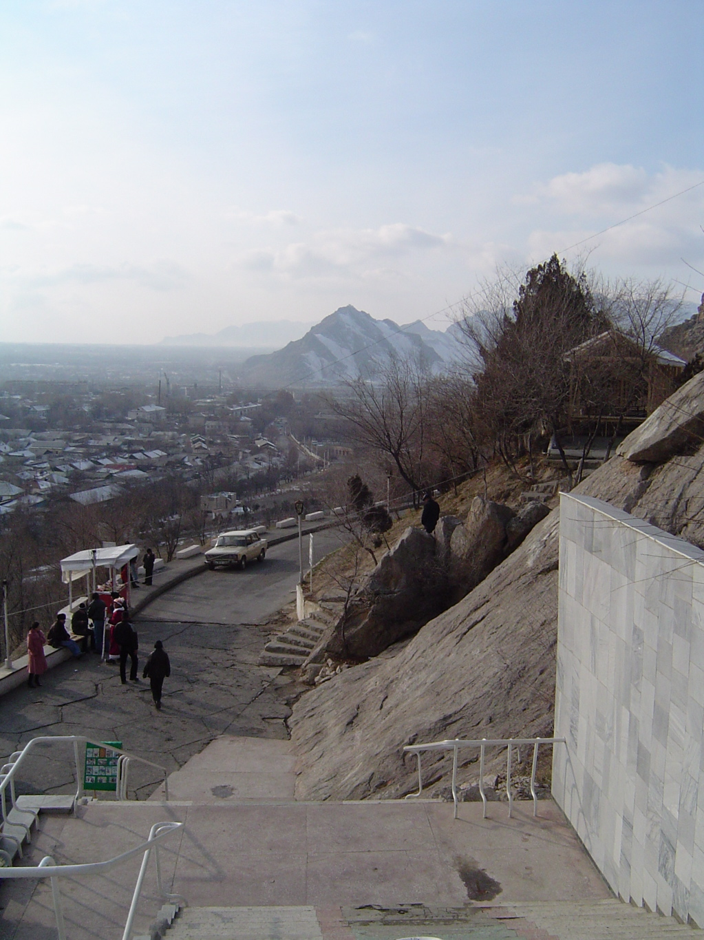 View of Osh from Sulayman Mountain. Taken 31st of December, 2005 by Onar Vikingstad. Released to GDFL.